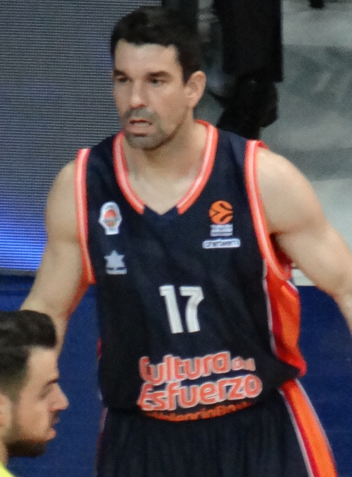 Rafa Martínez 17 Valencia Basket 20171102